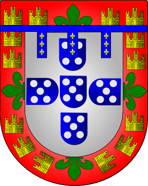 Arms of Prince Henry, the Navigator, of Portugal. Author: JSobral